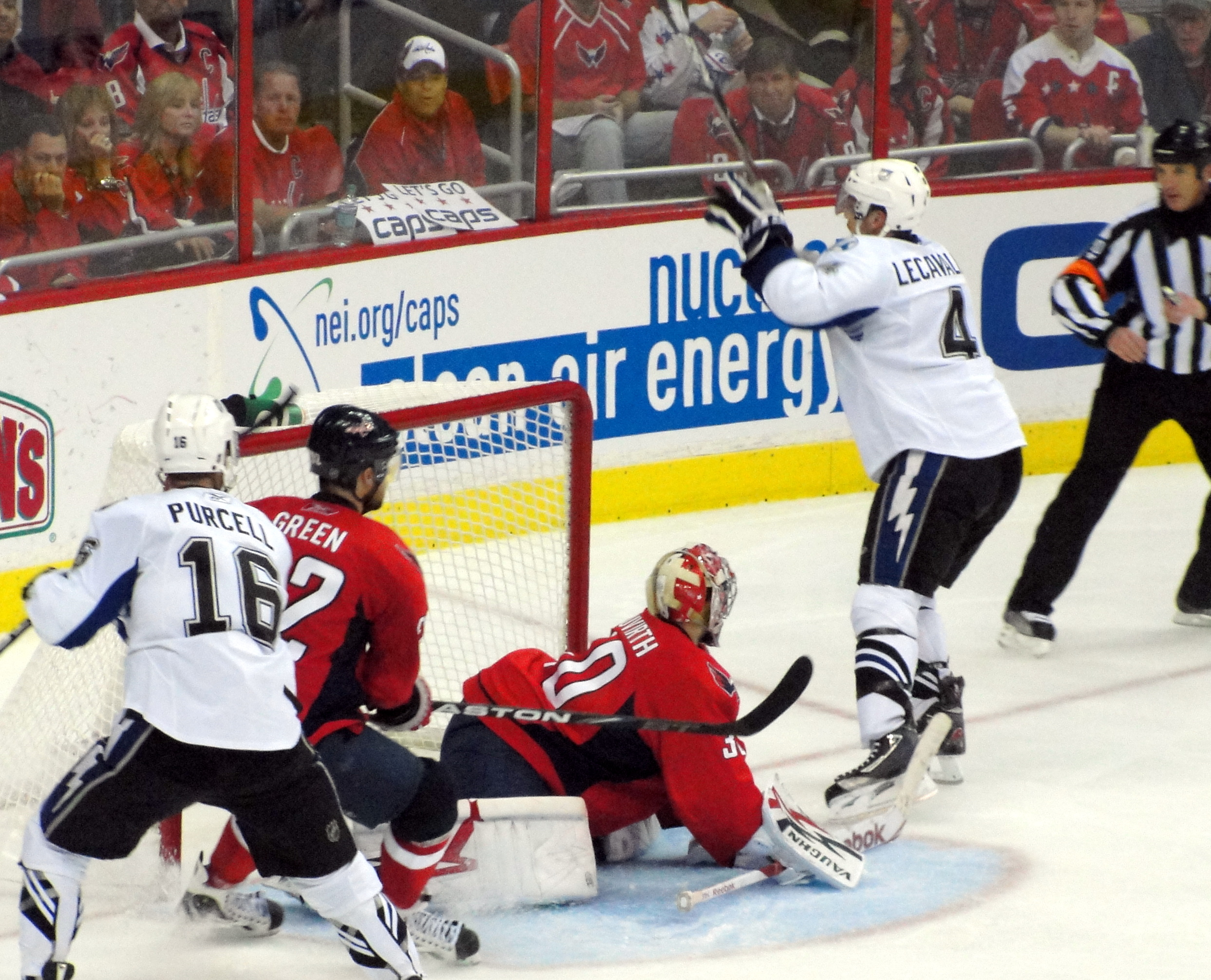 Vincent Lecavalier celebrates his game winning goal in overtime of the Tampa Bay Lightning's playoff game against the Washington Capitals, May 1, 2011 at Verizon Center in Washington, D.C. The win put the Lightning up two games to none on their way to a series sweep of the Capitals in the 2nd round of the 2011 Stanley Cup Playoffs.